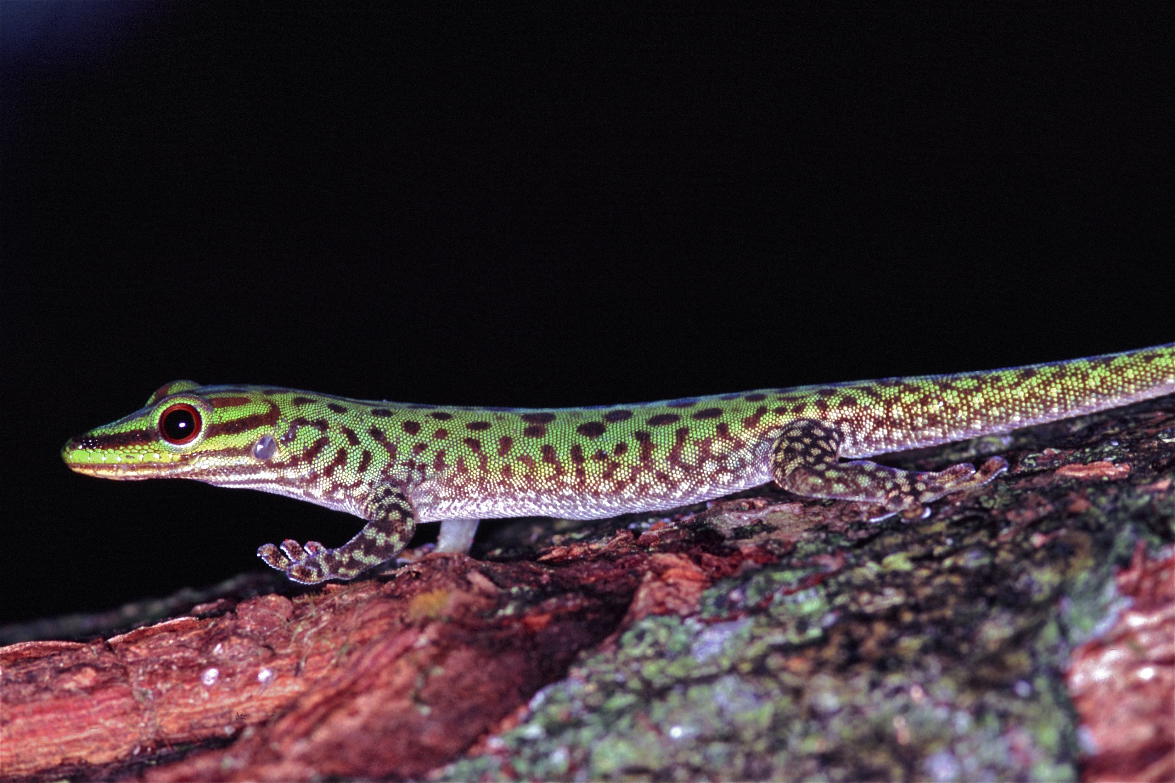 Tampolo, Masoala NP, MADAGASCAR Scanned Slide from 2004